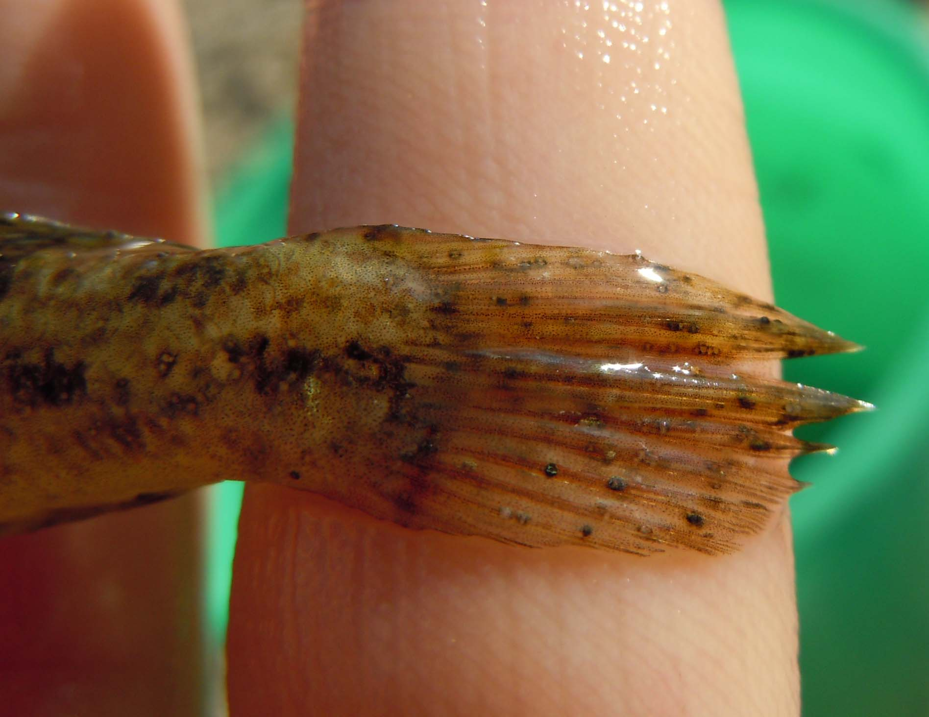 A fin of the round goby (Neogobius_melanostomus) from the Tylihul Estuary (Black Sea, Ukraine) infected with Cryptocotyle spp. (black spots)